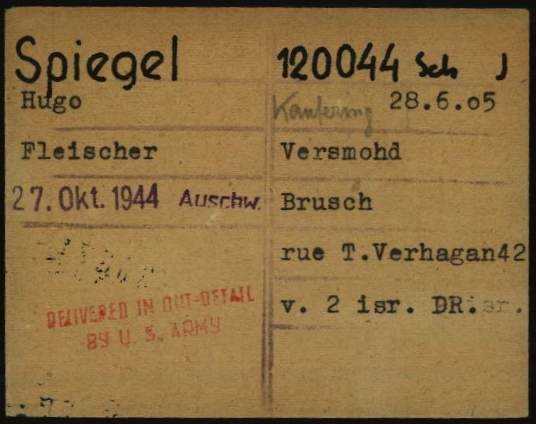 Registration card of Hugo Spiegel as a prisoner at Dachau Nazi Concentration Camp. Red stamp means he was liberated by the U. S. Army from a Dachau sub-camp (out-detail).